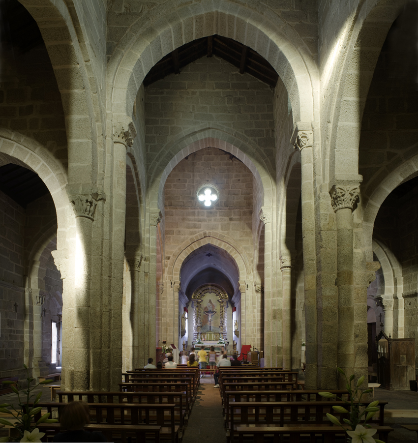 This file was uploaded for Wiki Loves Monuments in Portugal with the unique identifier 69880.